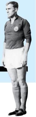 Drazan Jerkovic, 1962 FIFA World Cup top goalscorer